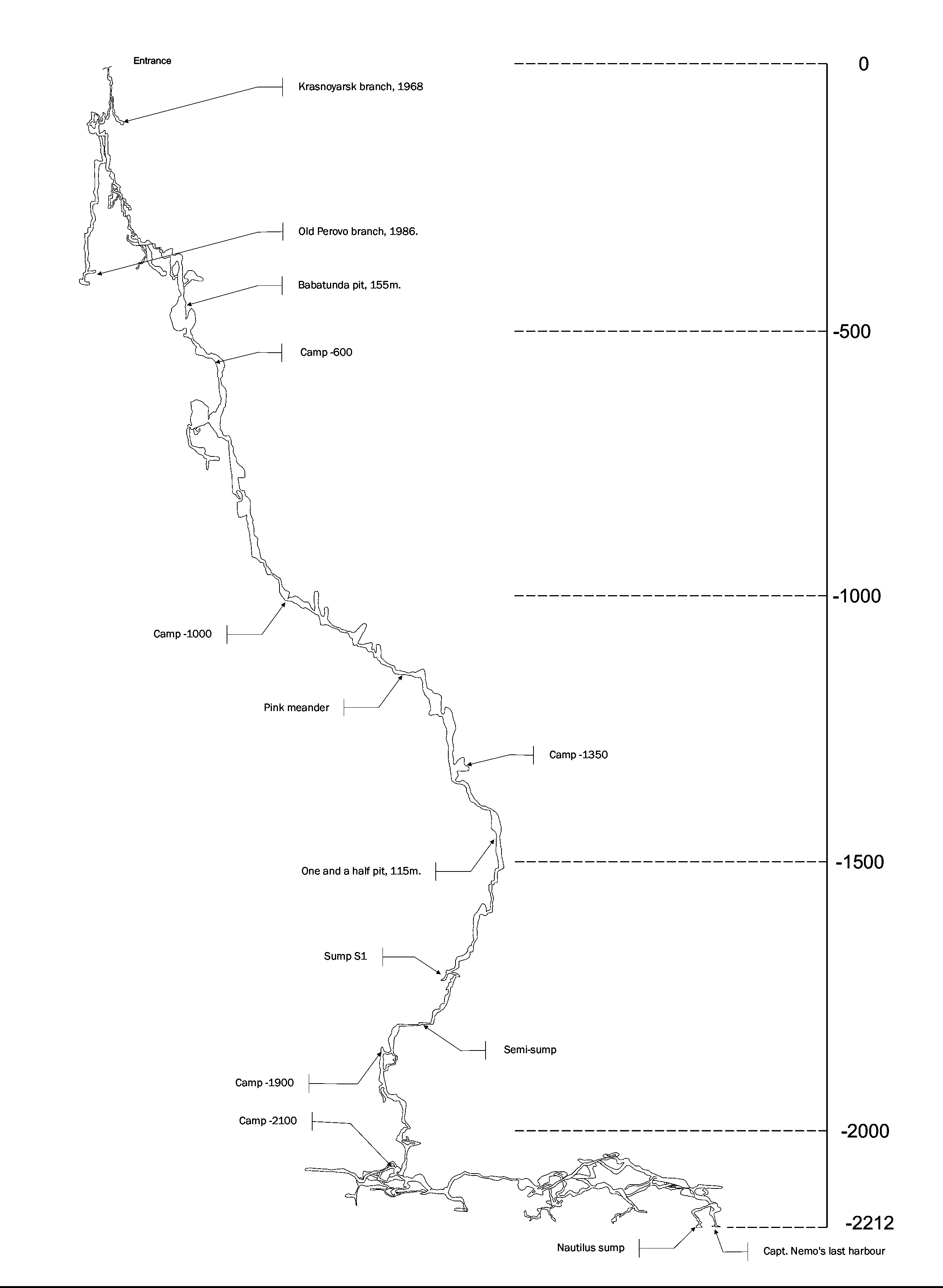 Based on surveys of Perovo-speleo team and Perovo caving club by August 2017.